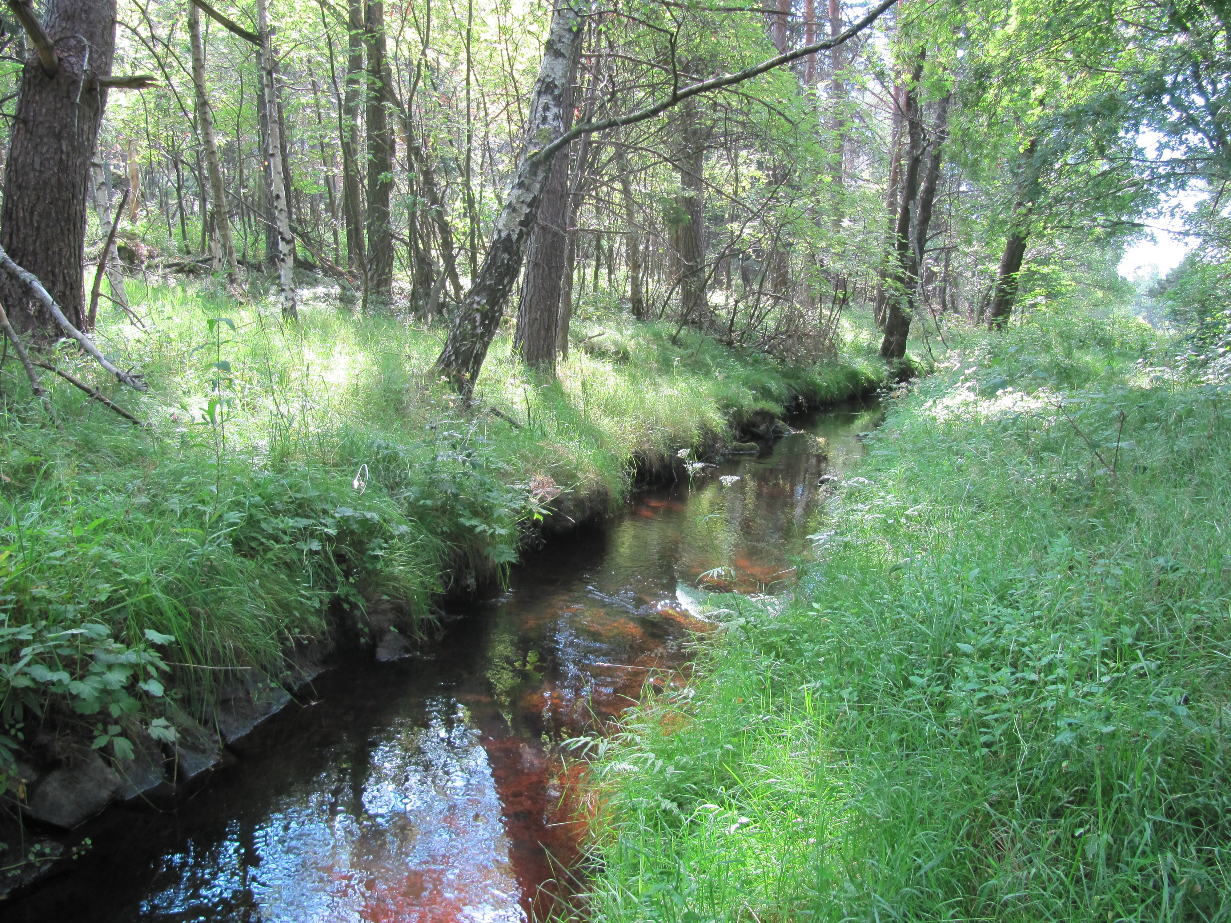 Water channel Dlouhá stoka near Prameny village in Cheb District, Czech Republic.